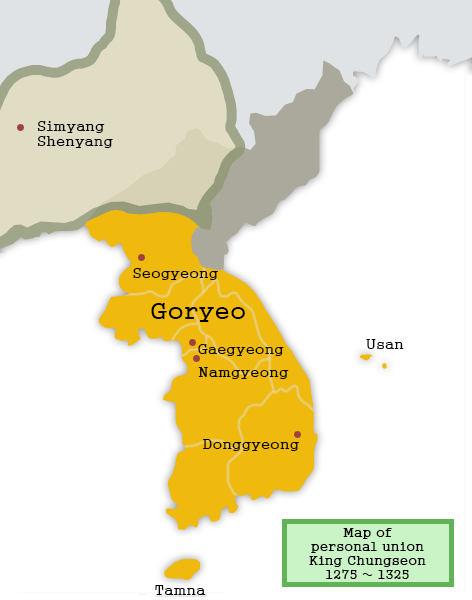 Map of personal union Goryeo and shenyang. source is Goryeosa.